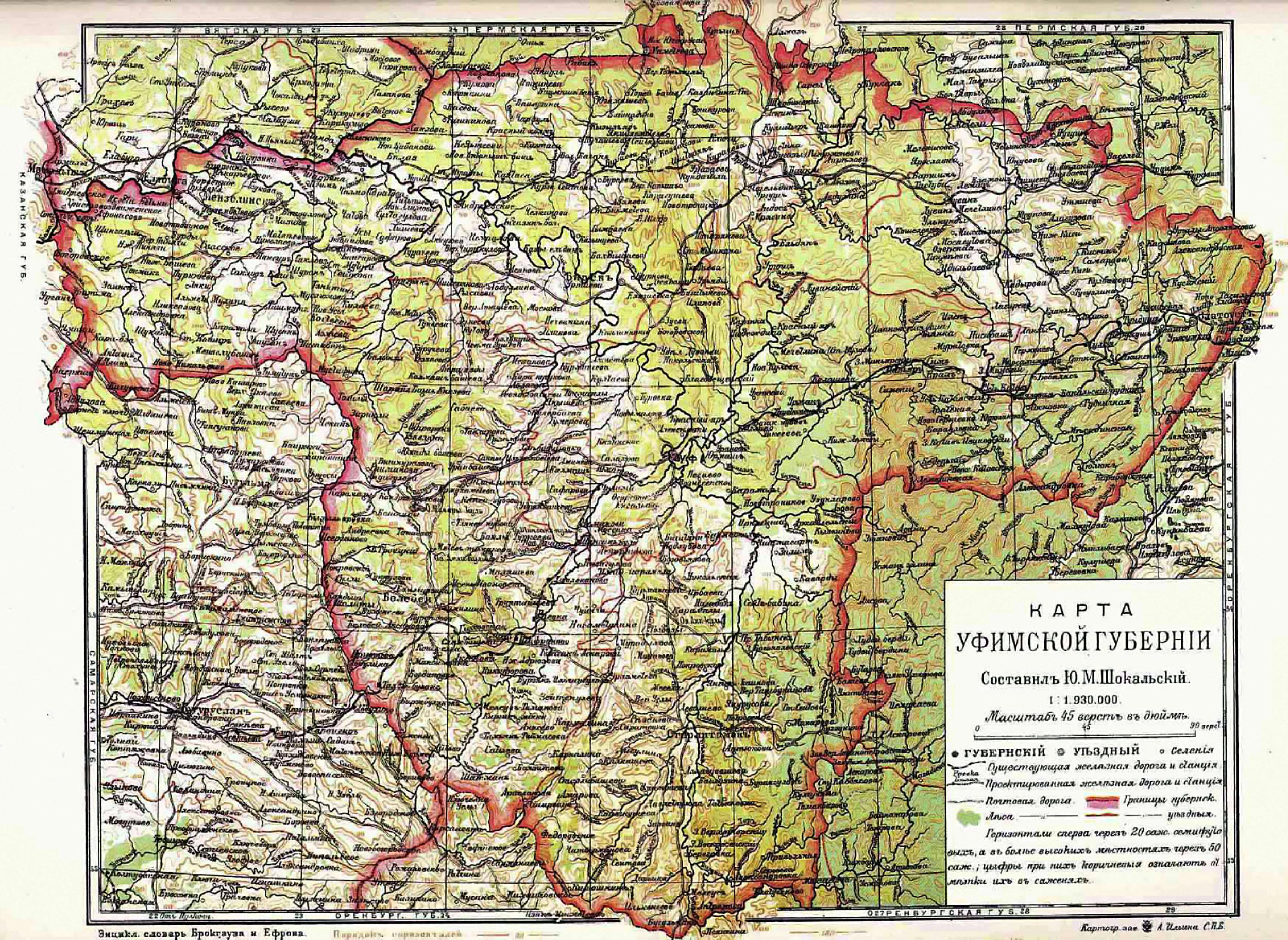 Map of Ufa Governorate of Russian Empire from Brockhaus and Efron Encyclopedia